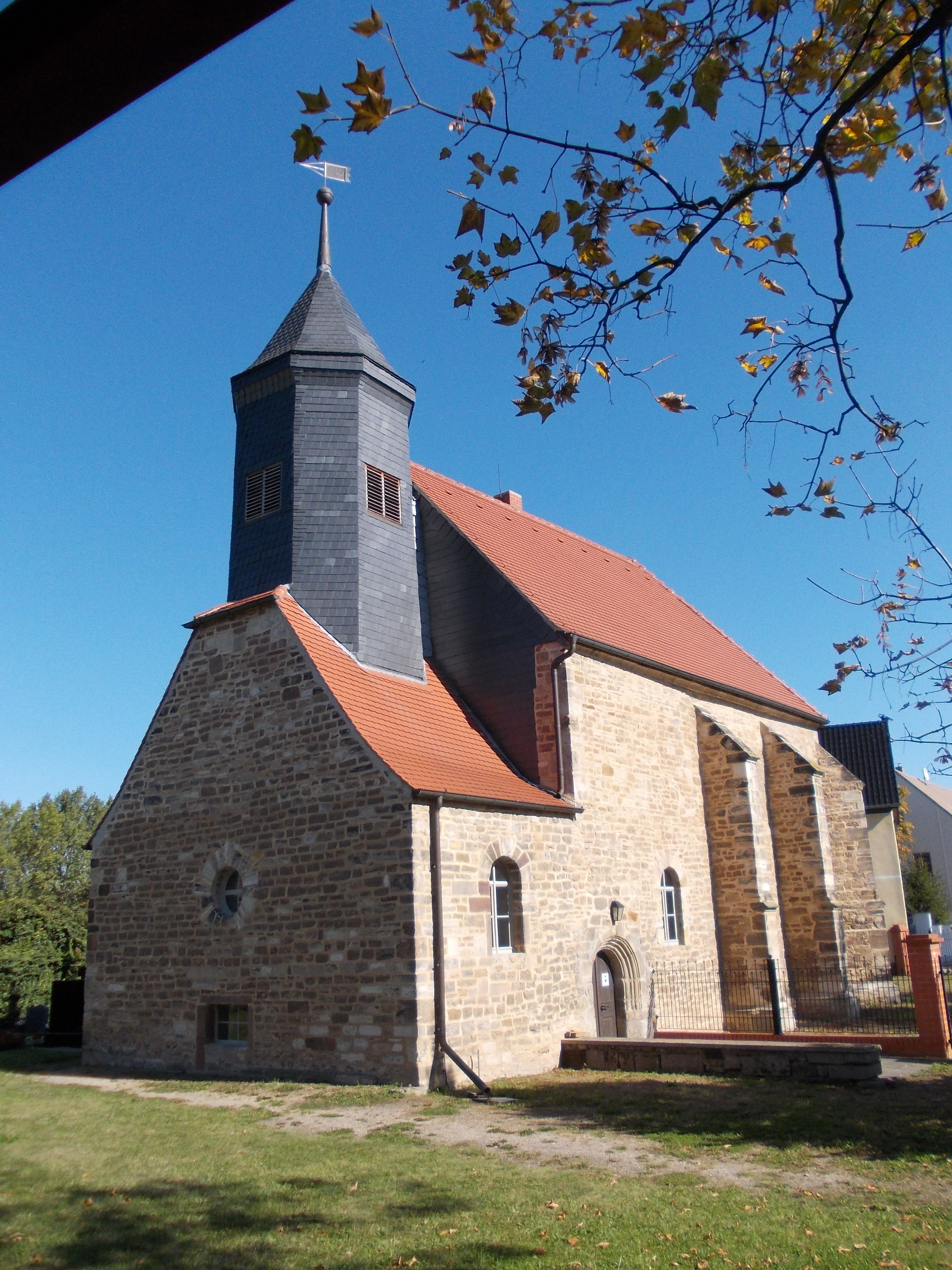 Kröllwitz church (Leuna, district of Saalekreis, Saxony-Anhalt)